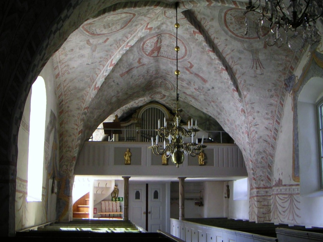 Amundsen paintings of Church room.